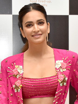 Kriti Kharbanda graces the launch of Arth restaurant on June 2018.